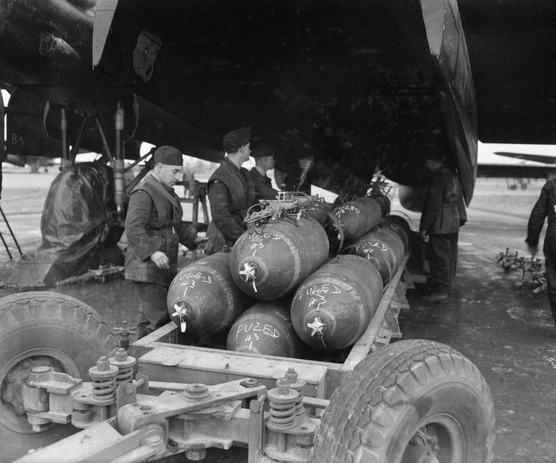 Armourers prepare to load 1,000-lb MC bombs into the bomb-bay of an Avro Lancaster B Mark III of No. 106 Squadron RAF at RAF Metheringham, Lincolnshire, for a major night raid on Frankfurt, Germany.